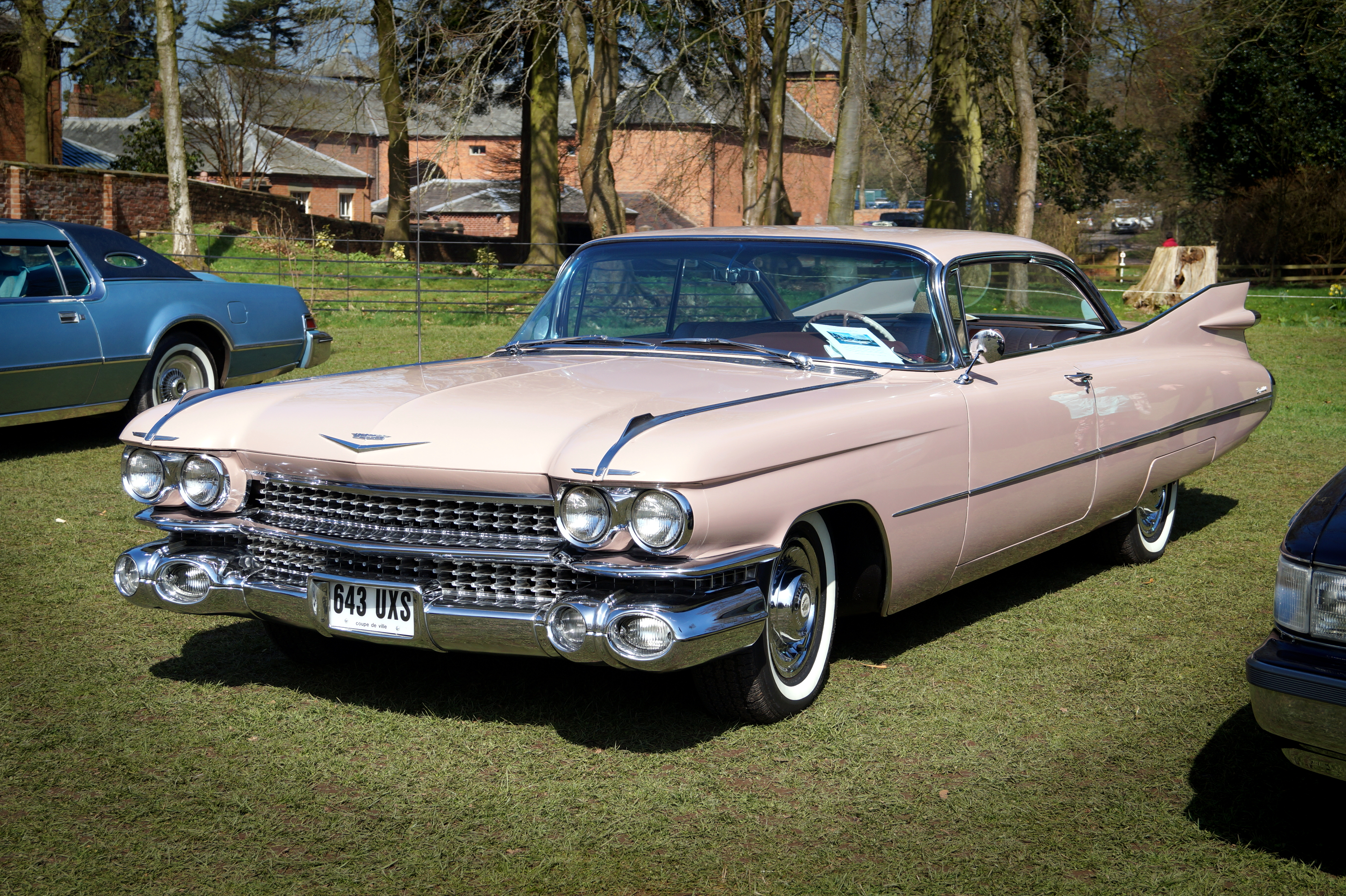 Cadillac Coupe de Ville, Weston Park Transport Show 2015.